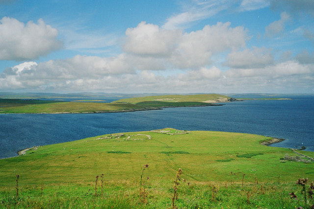 Ruined St Mary's chapel and Aith Ness peninsula on Bressay with Shetland Mainland in the background, Shetland, Scotland